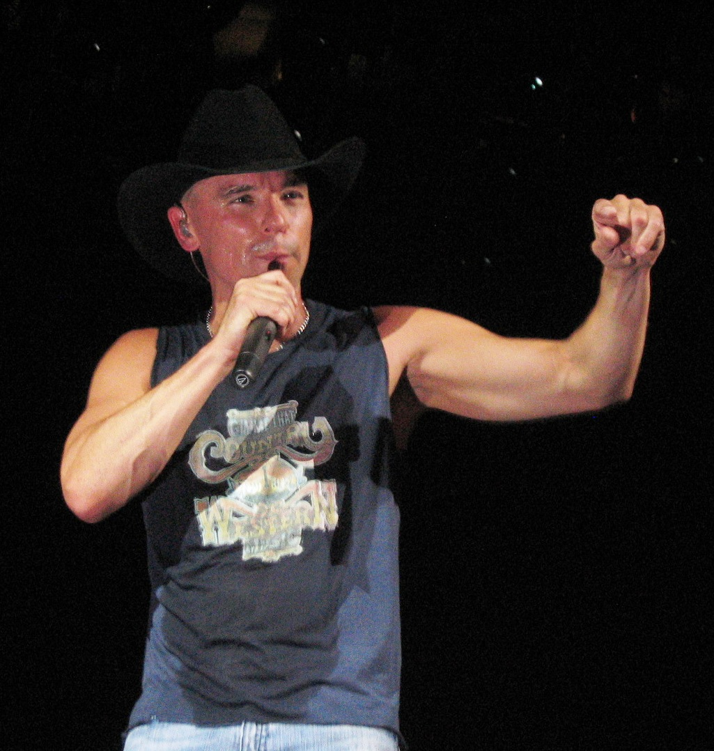 Kenny Chesney, in concert @ Madison Square Garden, New York City